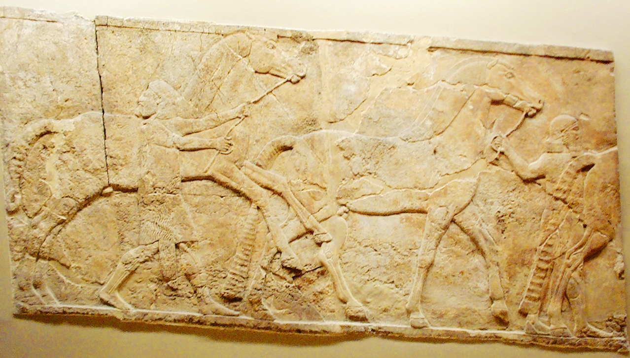 Assyrian wall carving of horses and grooms. From Nineveh, South West Palace, 790BC - 592BC. In the British Museum.